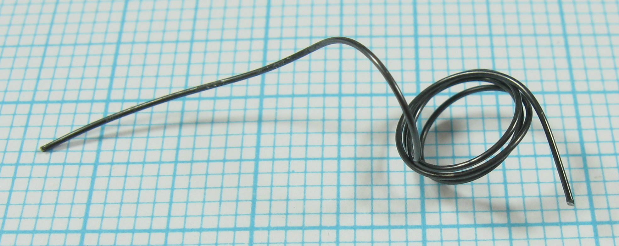 nitinol wire annealed